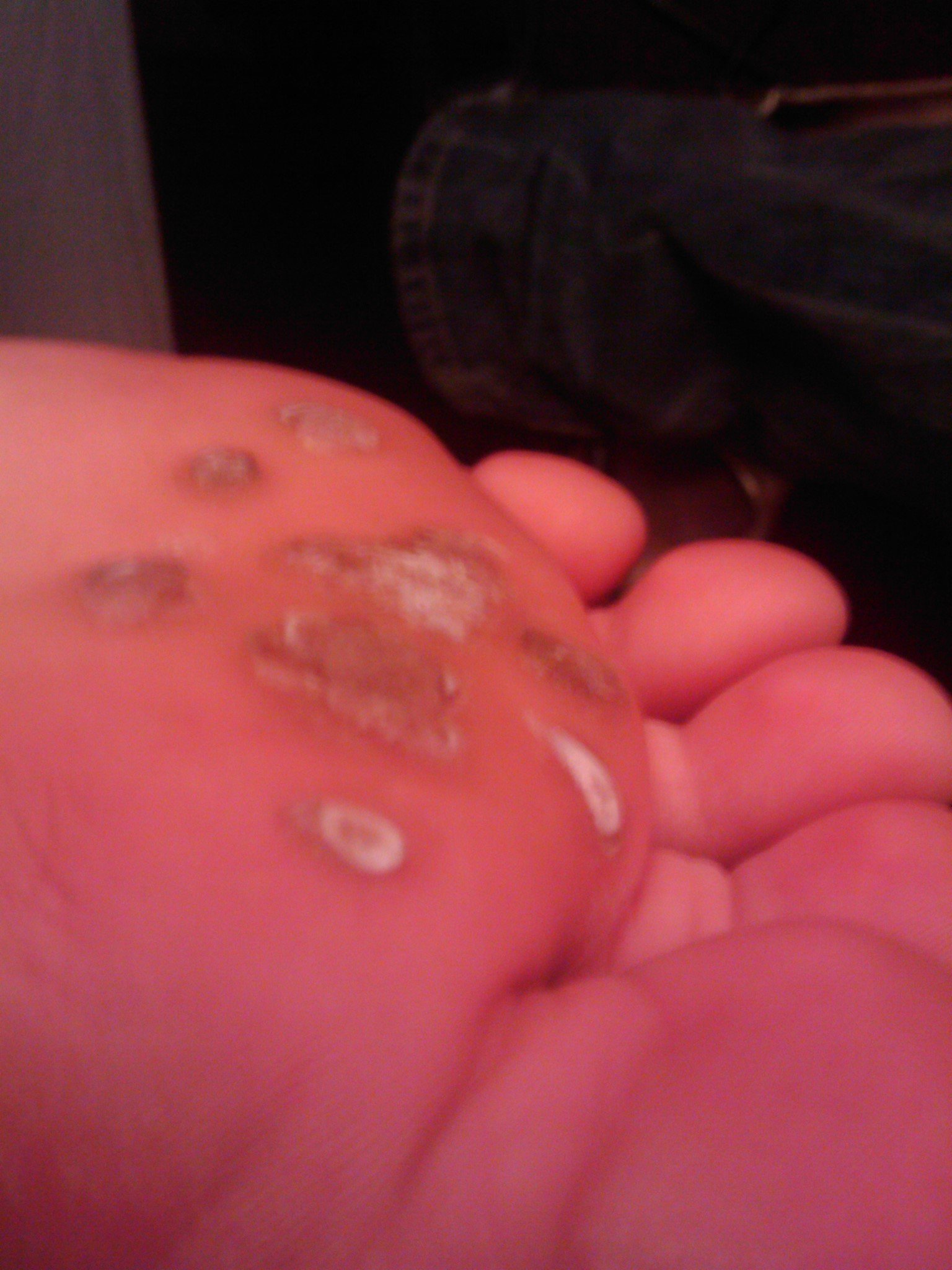 Mosaic cluster of Plantar warts - with salicylic acid recently applied